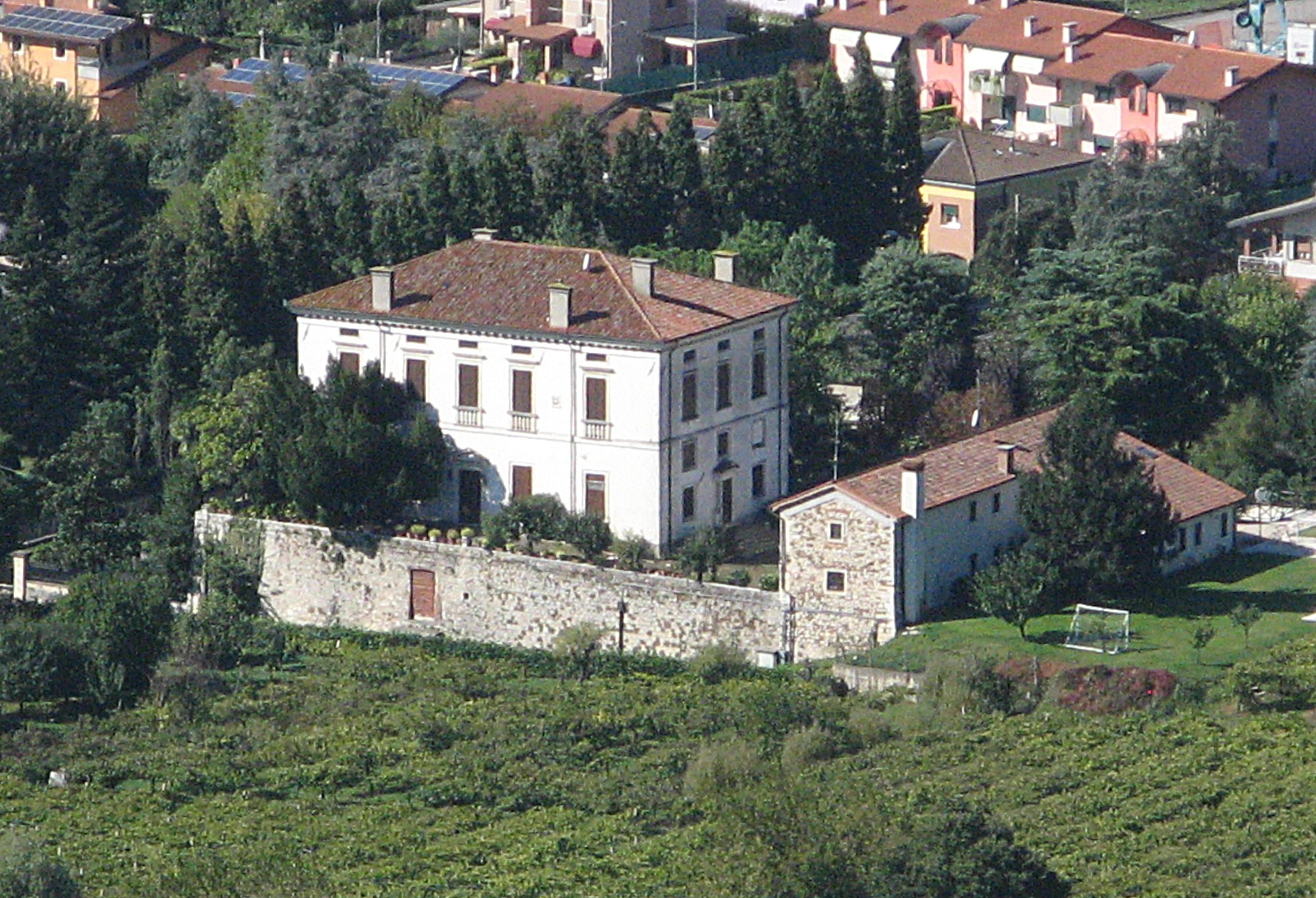 View on Villa Cantarella from the "Rocca dei Vescovi", Brendola (Italy).